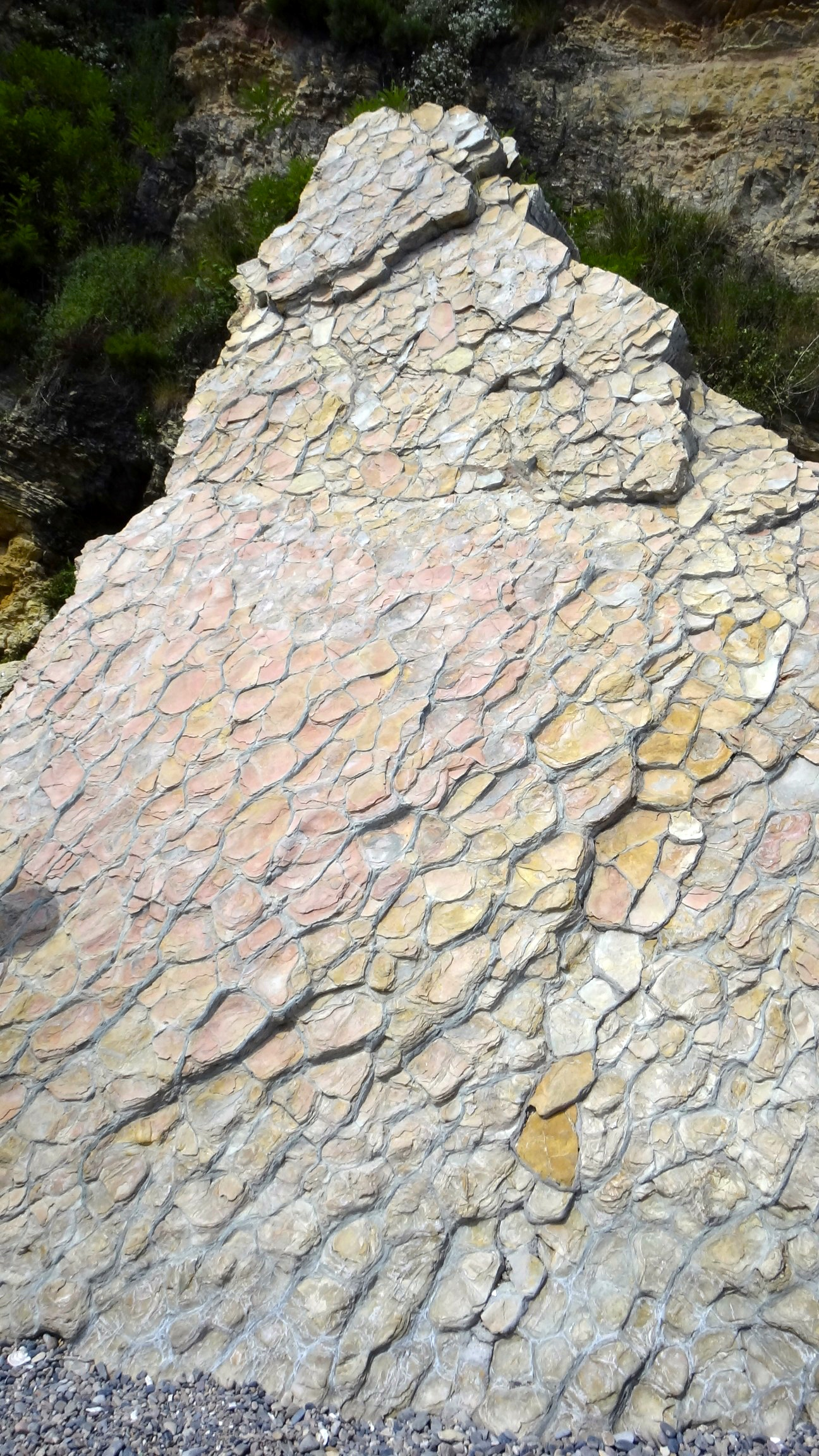 The largest septarian limestone in the world, Jinshitan National Holiday Resort, Dalian, China